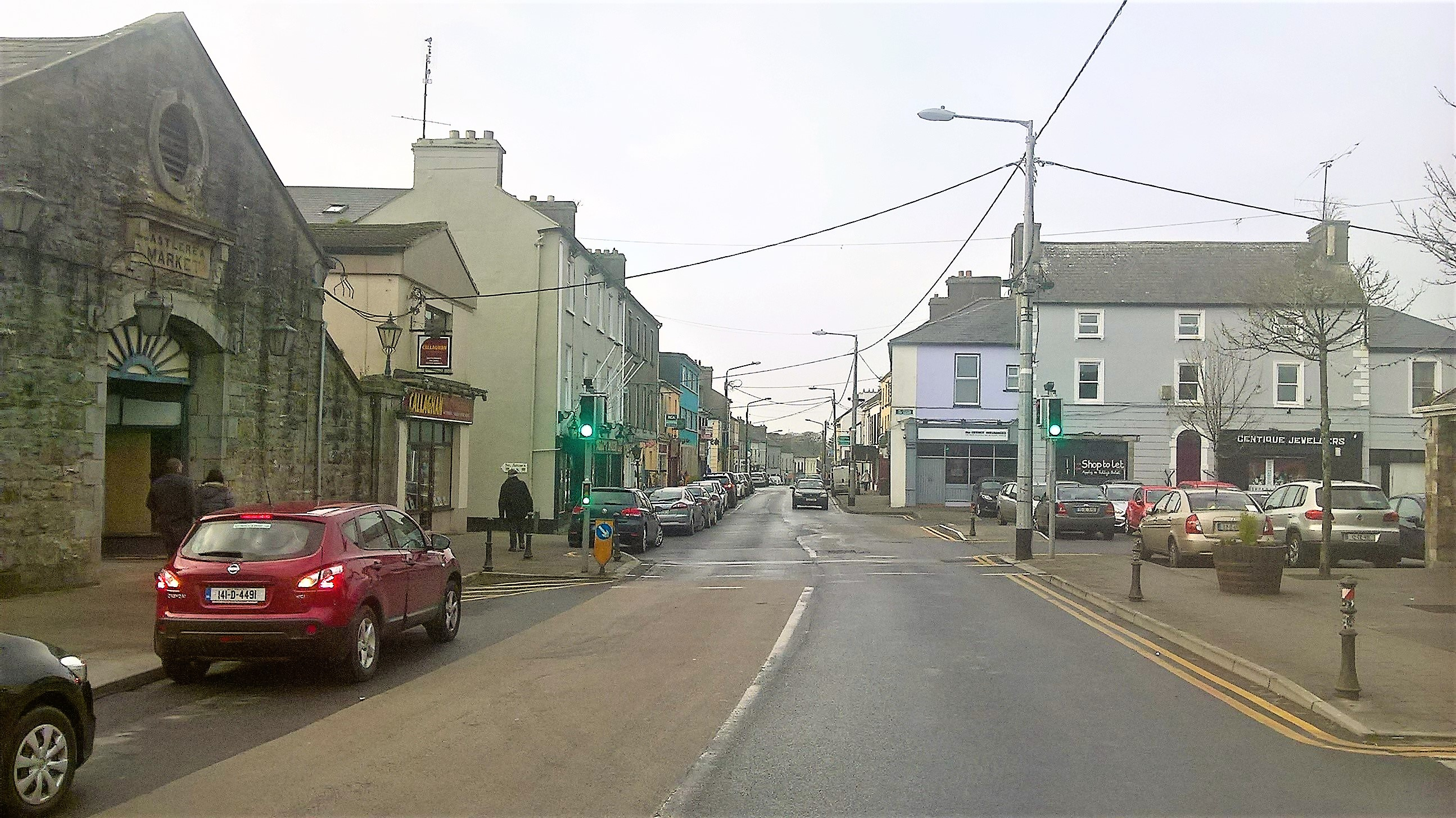 Mainstreet, Castlerea, Co. Roscommon.